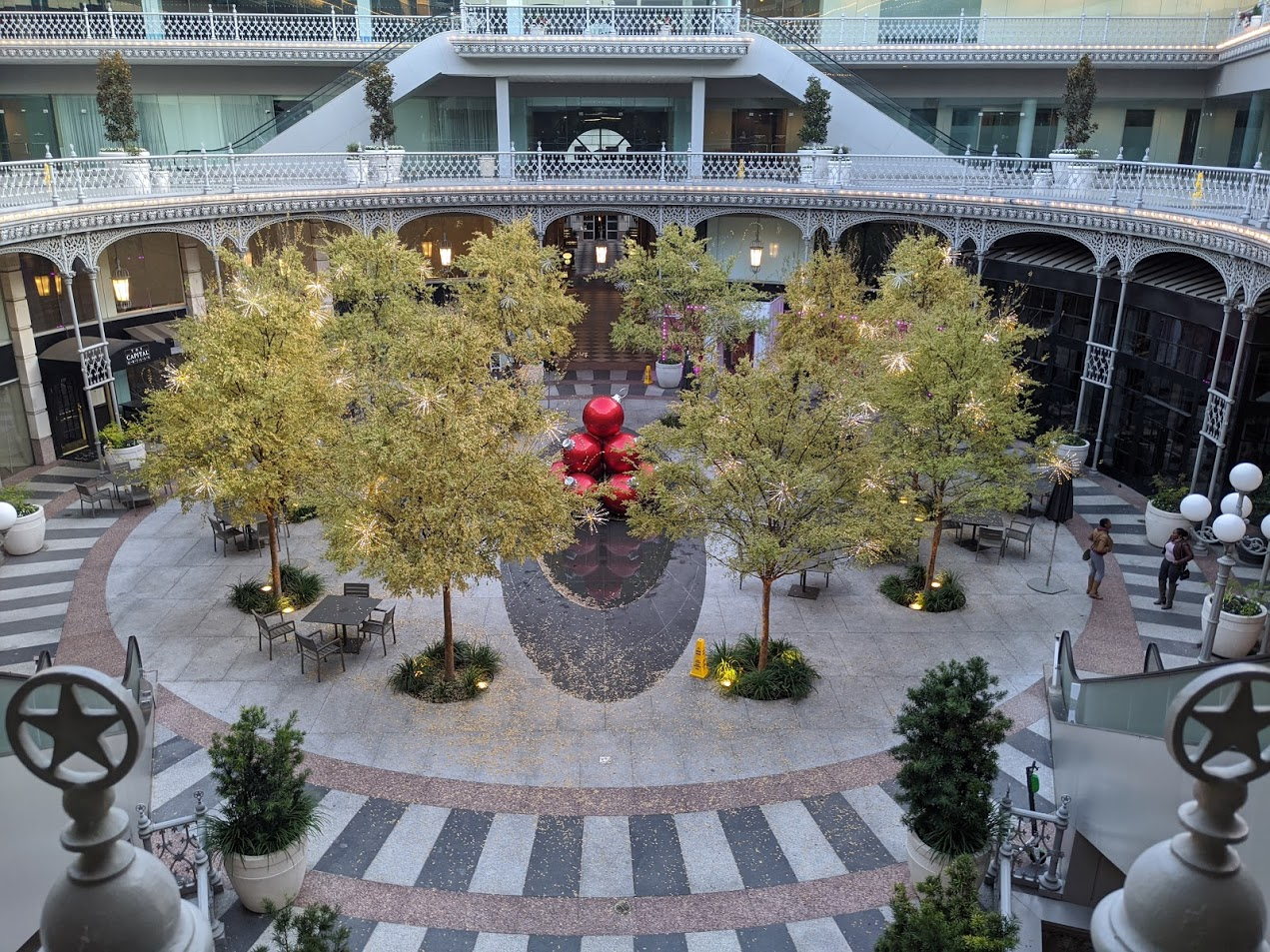 View of Removed Fountain